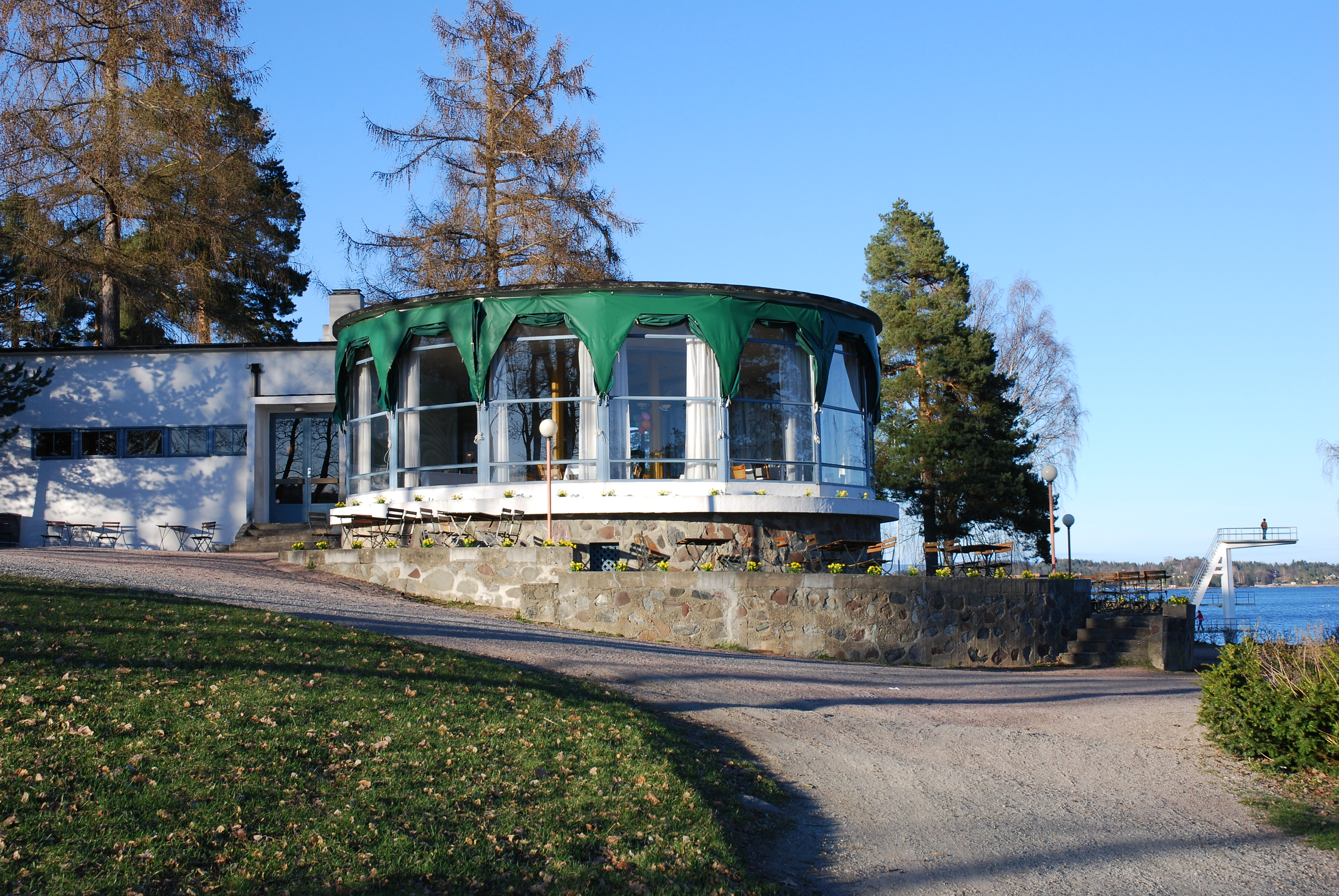 Functionalistic building on Hvalstrand bad in Asker, Norway